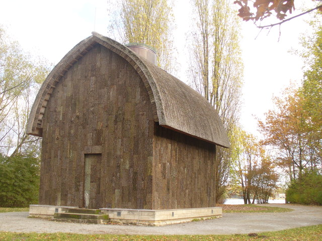 New Garden, Bark House (Hermitage)